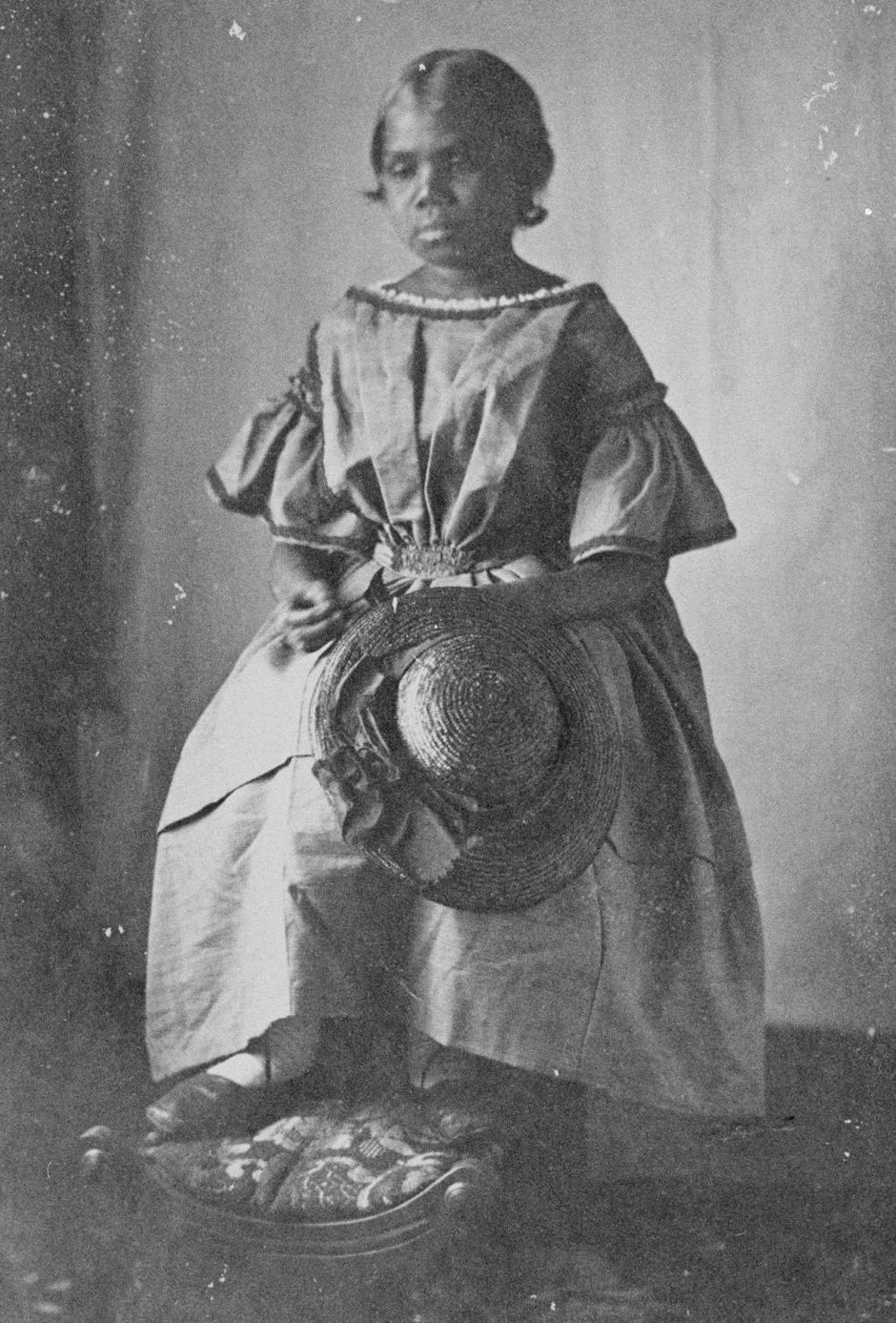 Bessie Flower - must be in the 1860s